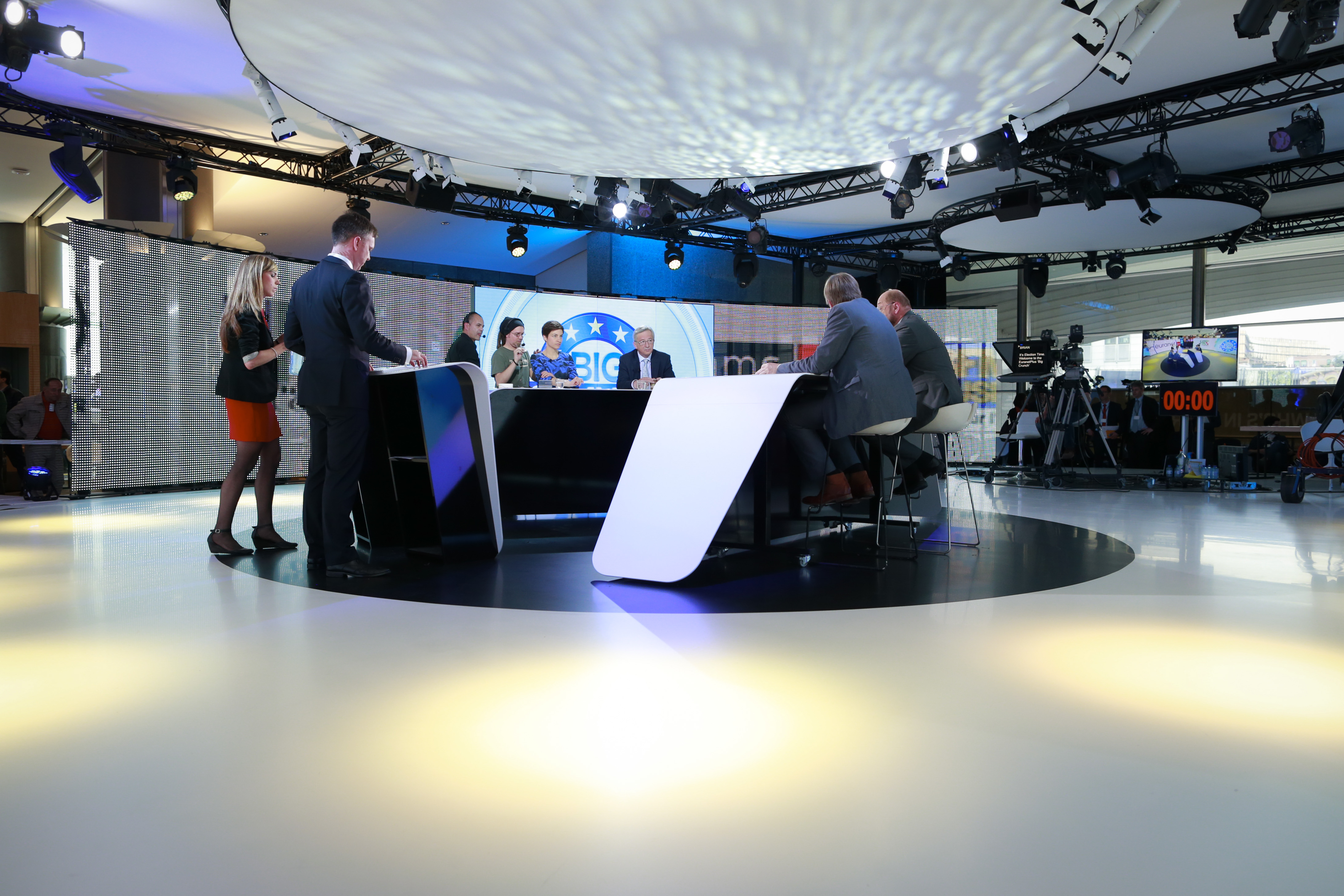 Who will be the next president of the European Commission? And how will he – or she – deal with the big election issues, like mobility, energy and unemployment? With just weeks to go before the EU-wide election in May, Euranet Plus talk directly with the top candidates. On April 29, the presidential hopefuls came together to answer these questions and more, outlining their plans for the next five years. Guests - Jean-Claude Juncker (European People’s Party), - Ska Keller (European Green Party), - Martin Schulz (Party of European Socialists) and - Guy Verhofstadt (Alliance of Liberals and Democrats for Europe) Moderators: - Brian Maguire - Ahinara Bascuñana López The videos, audios and all the details about the Big Crunch debate at